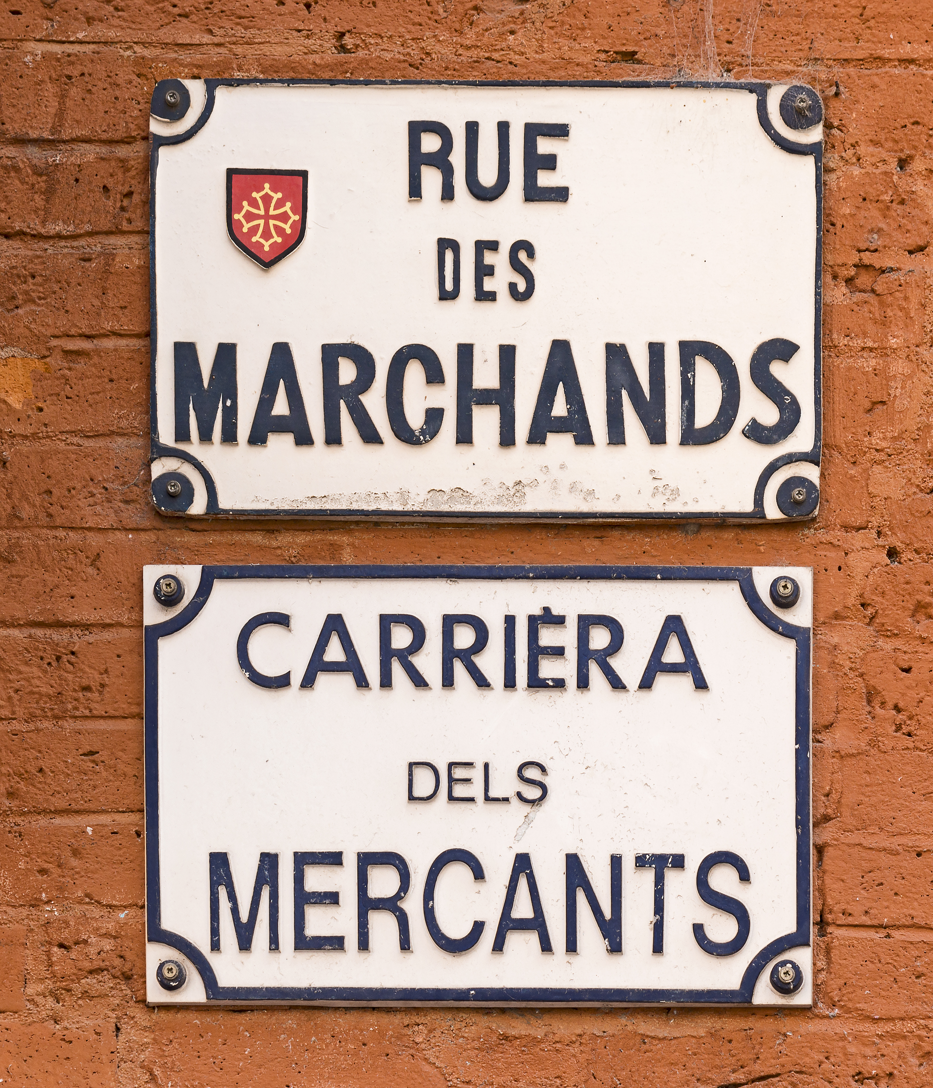 Street name sign in Toulouse. They have the particularity of being: in French and Occitan. Rue des Marchands(merchants street).